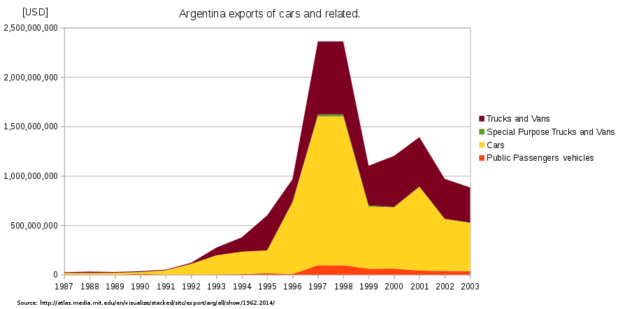 Argentina exports of trucks and vans, special purpose vehicles, cars, and public passenger vehicles. SITC IDs: 7821, 7822, 7810, 7831 ODS file